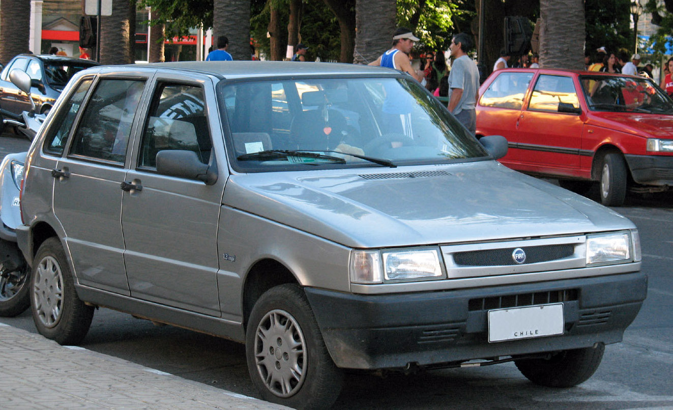 Brazilian-built 2004 Fiat Uno 1.3 S (MPi), five-door hatchback, in Chile.